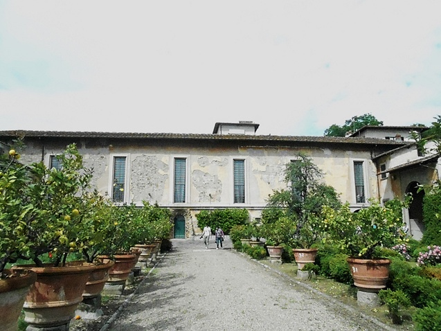 Limonaia